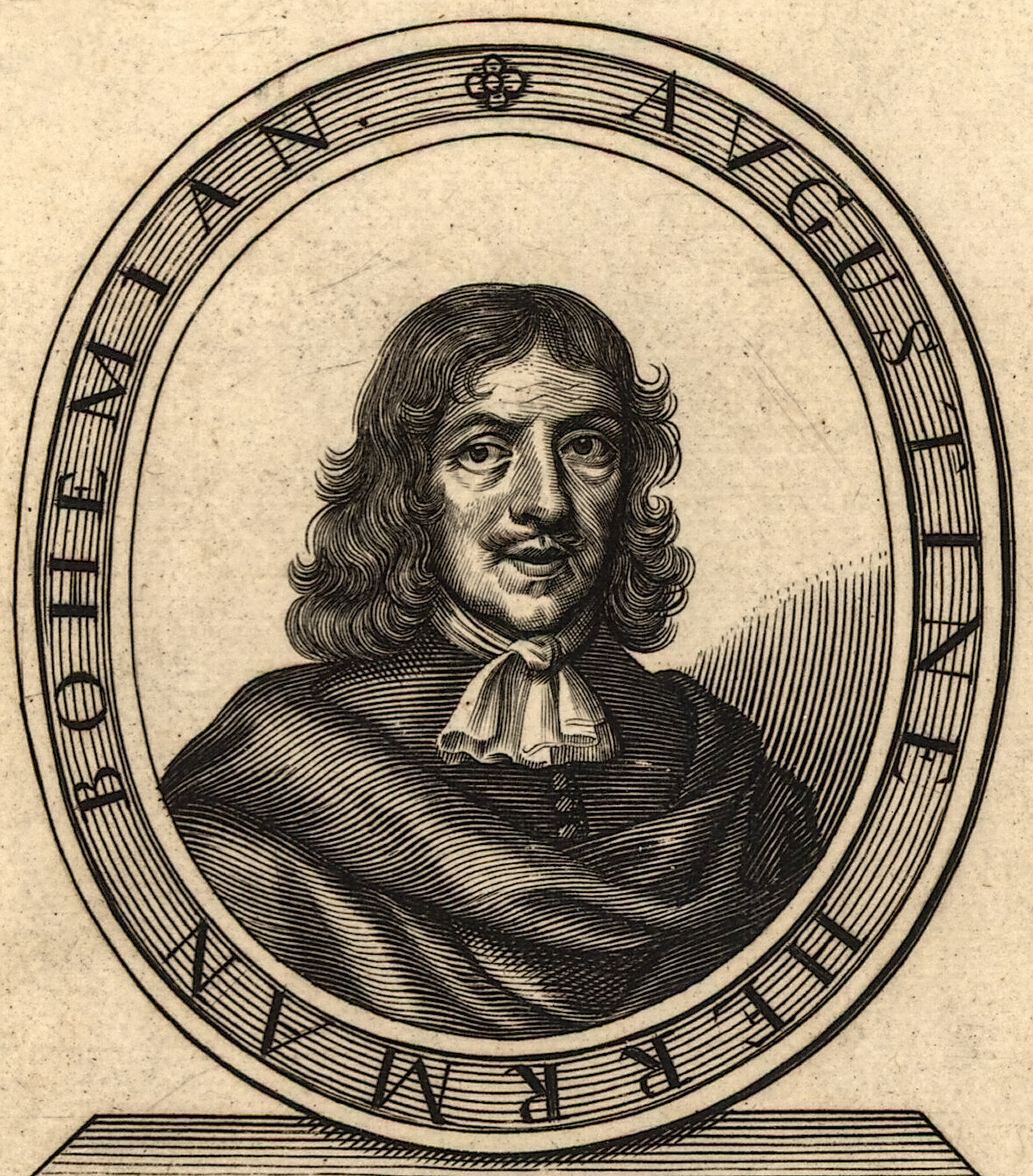 Augustin Herman Czech cartographers, Explorer